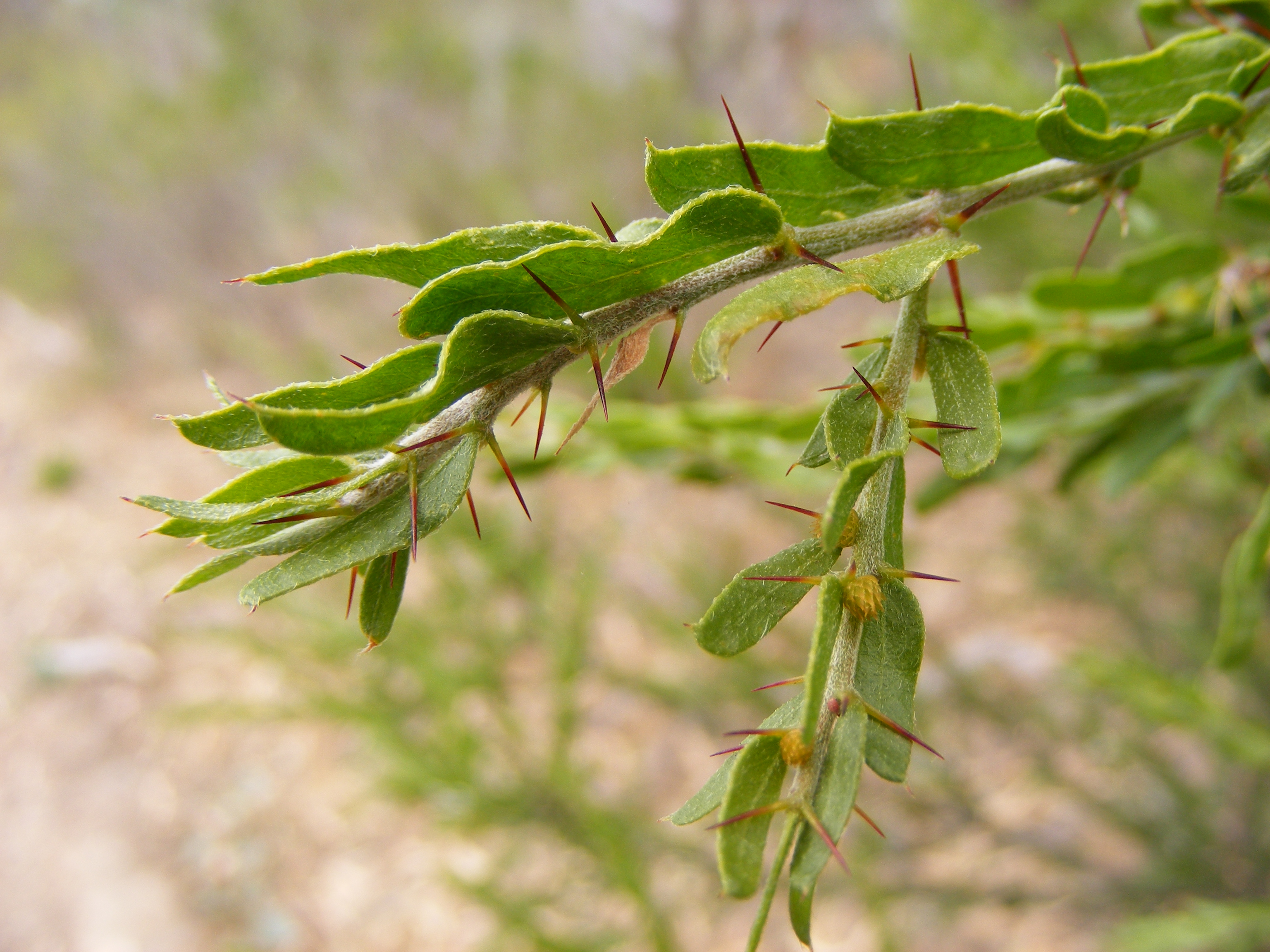 Acacia paradoxa or Kangaroo Thorn in early summer after the distinctive Acacia flowers have dropped. At Anstey Hill recreation park, Adelaide, South Australia